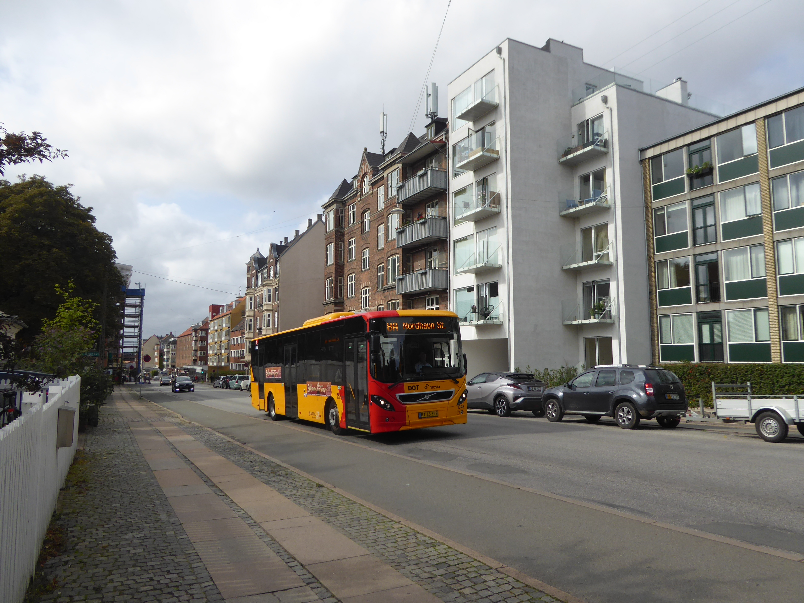 Movia bus line 8A on Valby Langgade in Valby in Copenhagen.